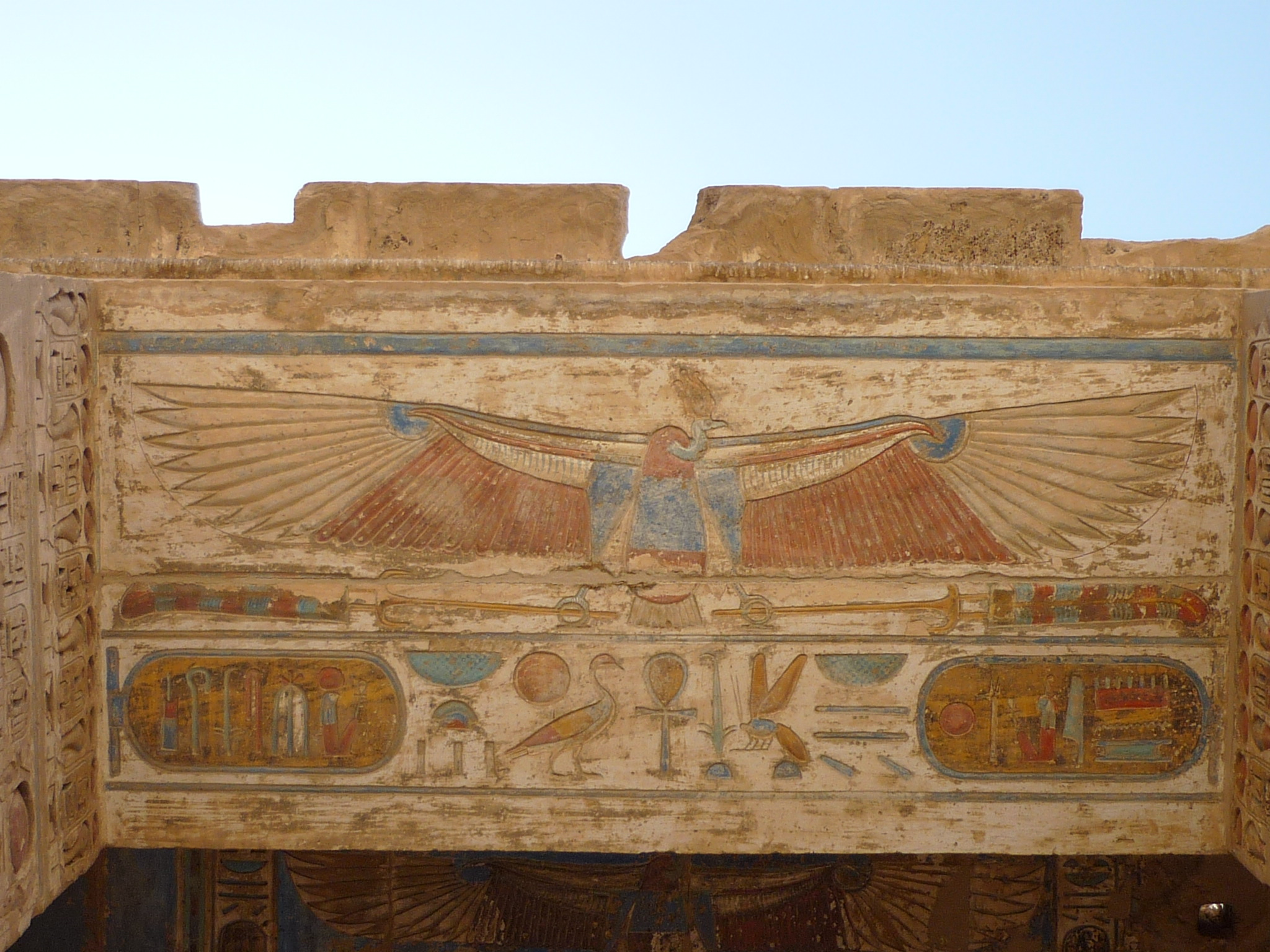 Ceiling with Nekhbet, mortuary temple of Ramses III, Medinet Habu, Theban Necropolis, Egypt